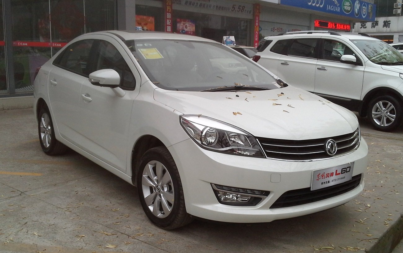 Dongfeng Fengshen L60 photographed in Liuzhou, Guangxi province, China.